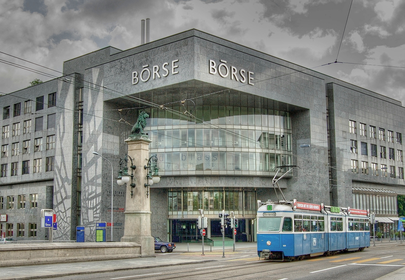 SWX Swiss Exchange